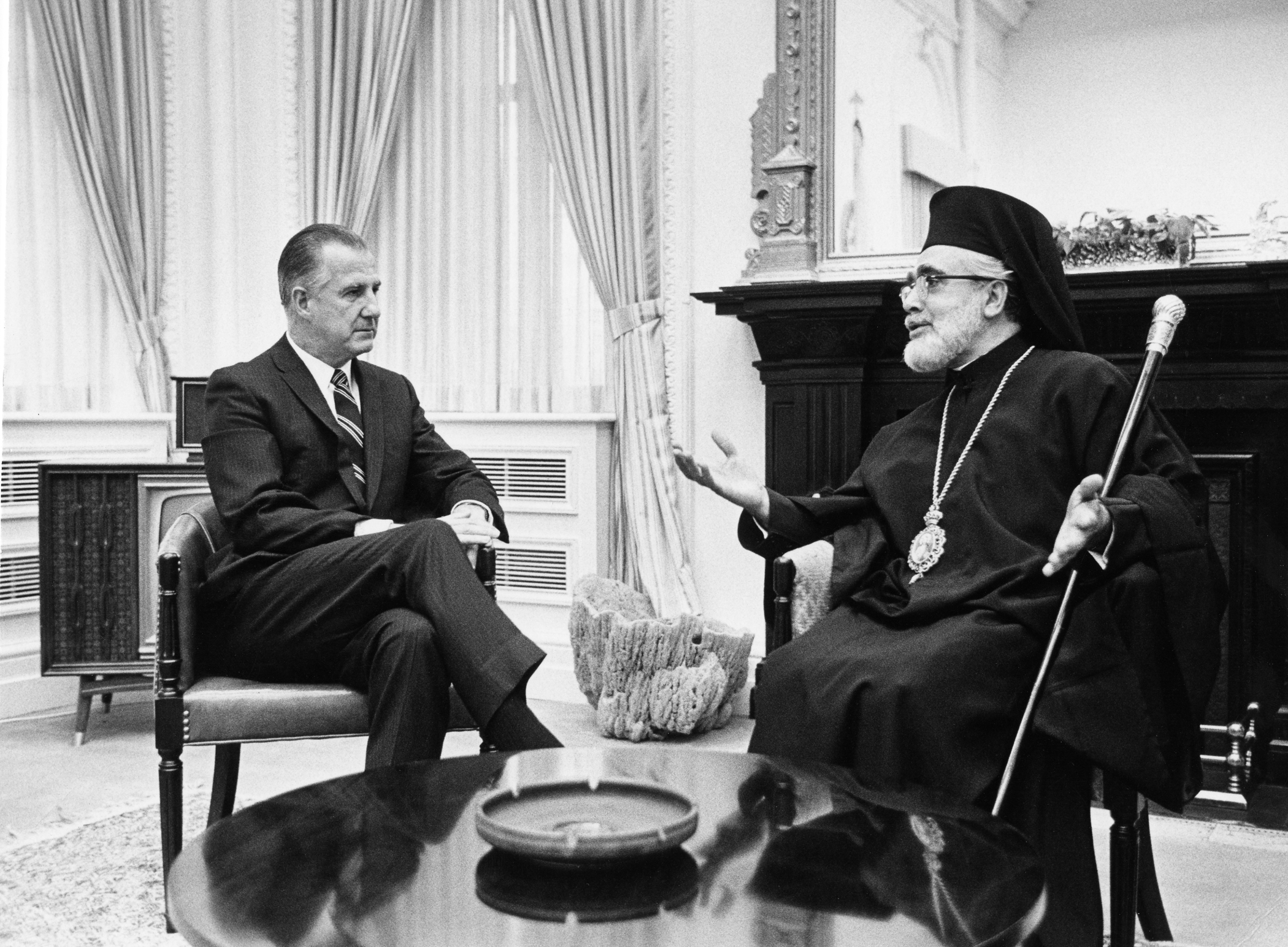 Archbishop Iakovos and Vice President Agnew